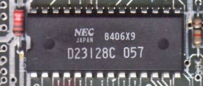 Sinclair 48K ZX Spectrum motherboard (Issue 3B. 1983) (Manufactured 1984)